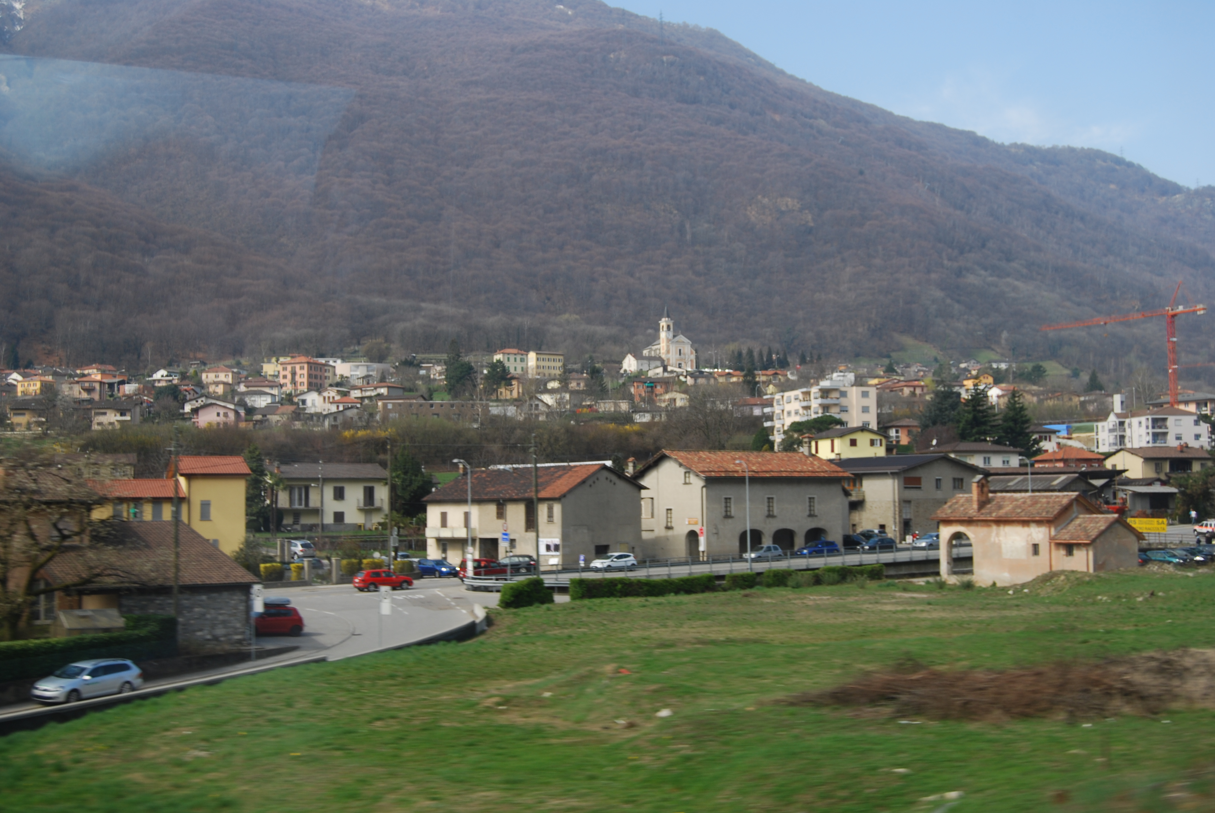 Rivera, municipality Monteceneri, canton of Ticino, Switzerland